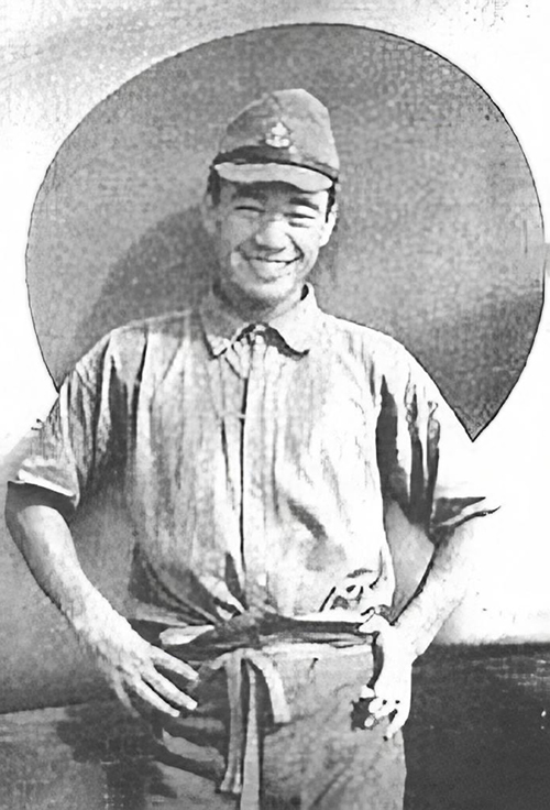 Saburo Sakai as a young pilot in 1939.